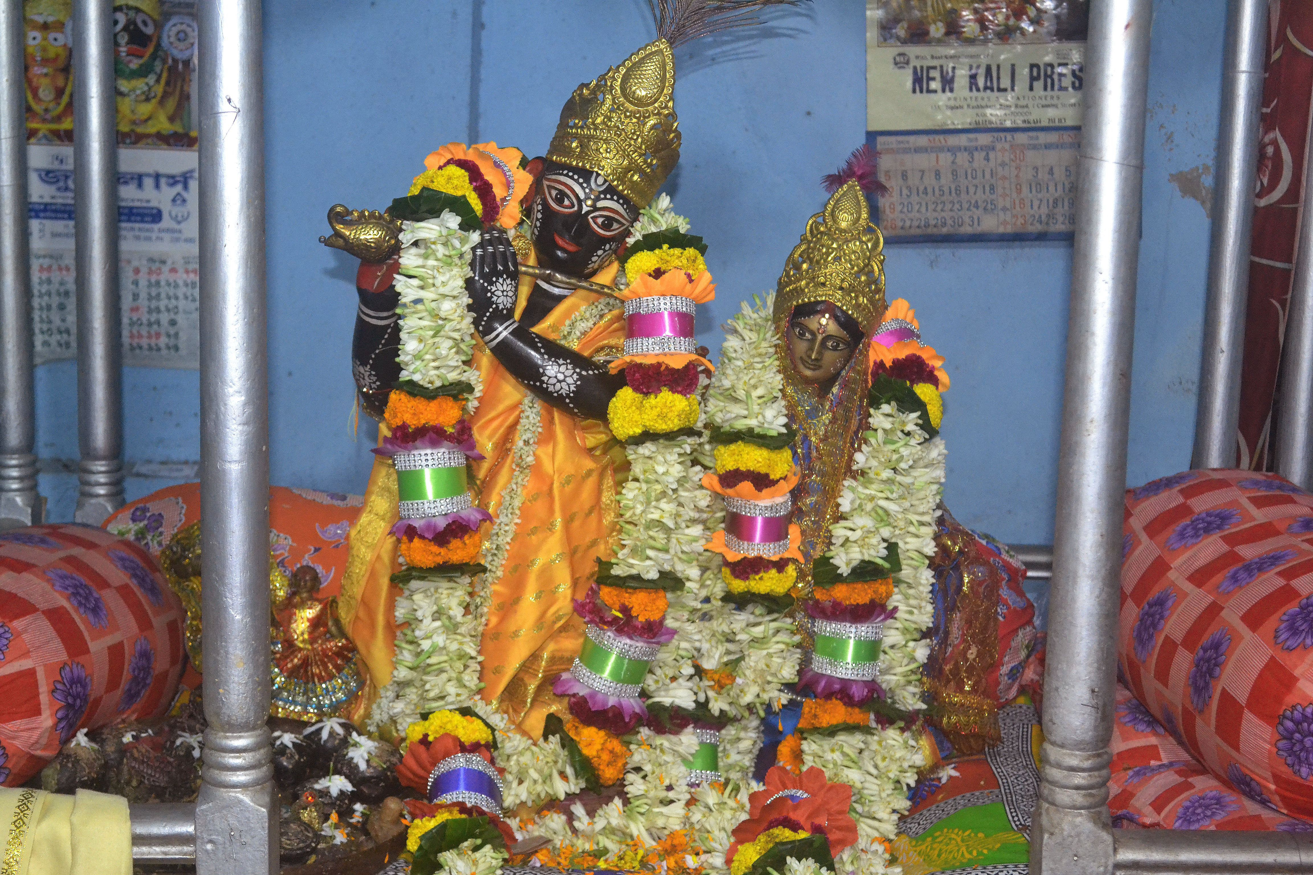 Idols of Krishna & Radha in Radhakanta Jiu Temple, Barisha, Kolkata